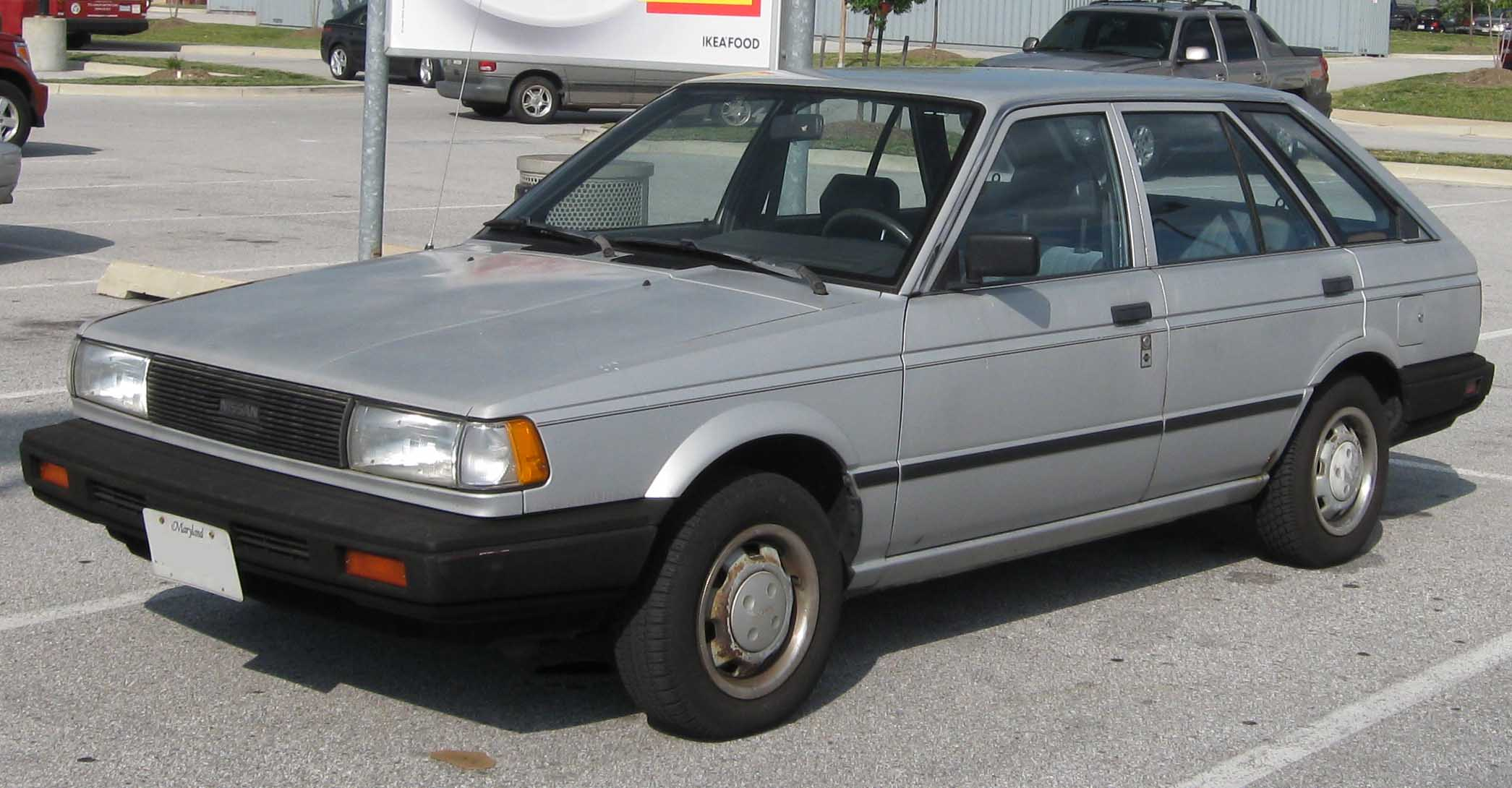 1989-1990 Nissan Sentra photographed in College Park, Maryland, USA.